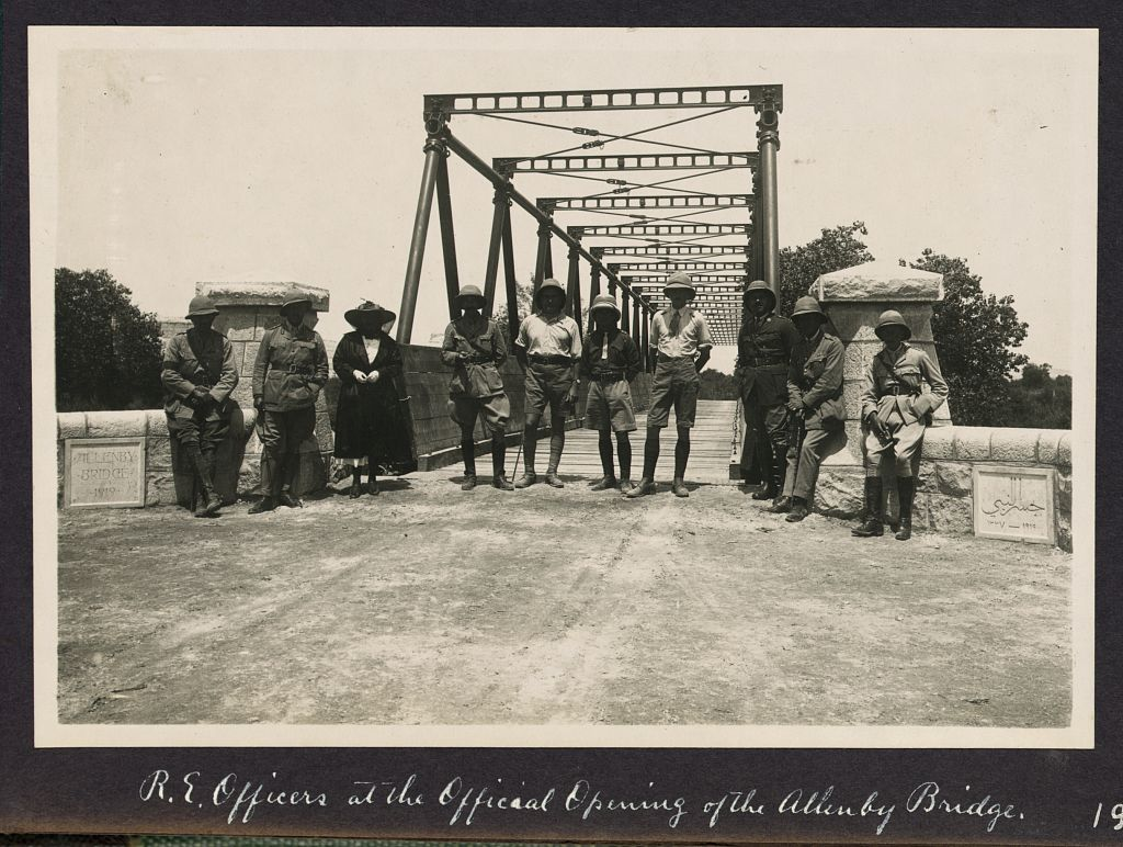 R. E. Officers at the official opening of the Allenby Bridge, 1918